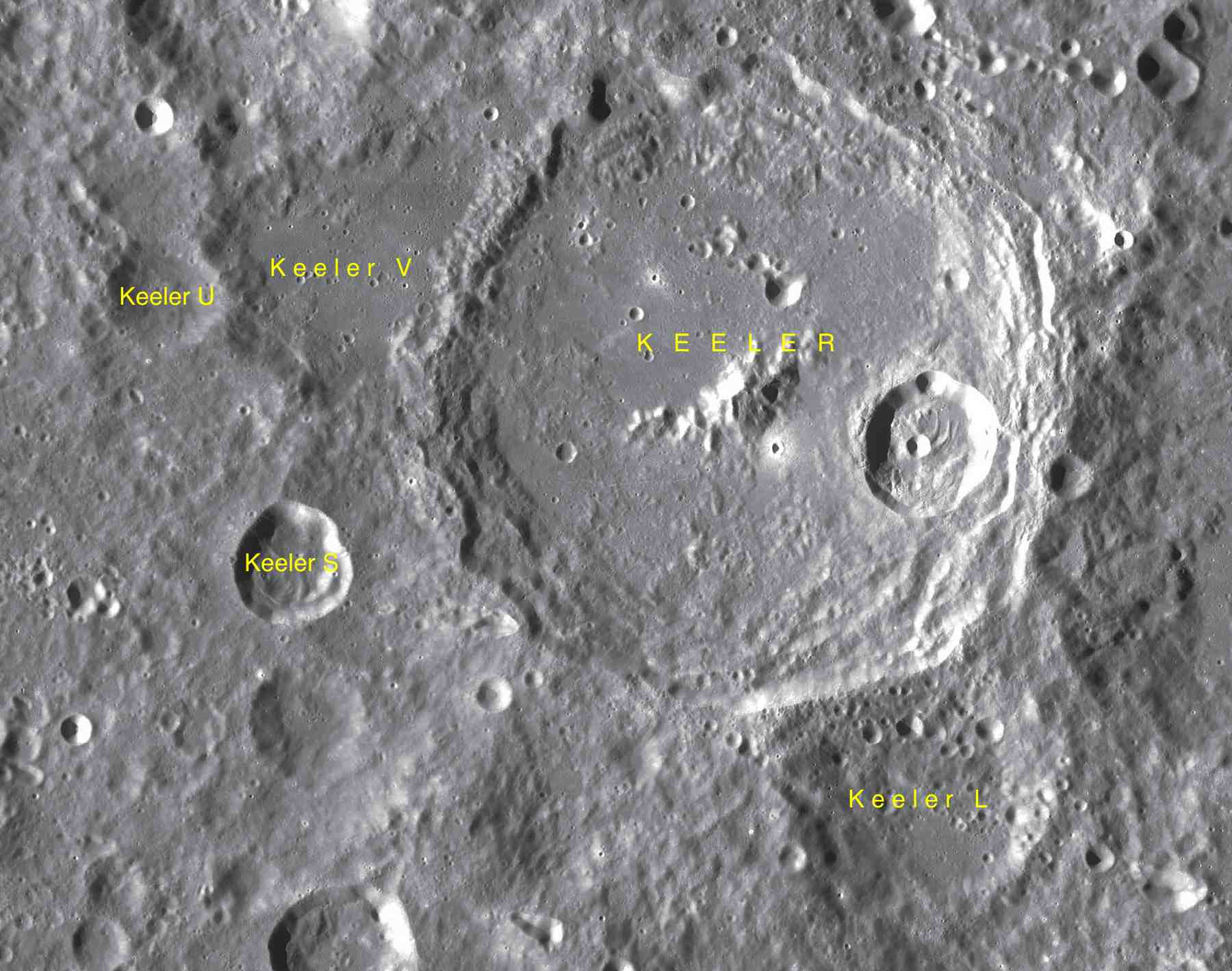 Part of the chart LAC-85 used for the presentation